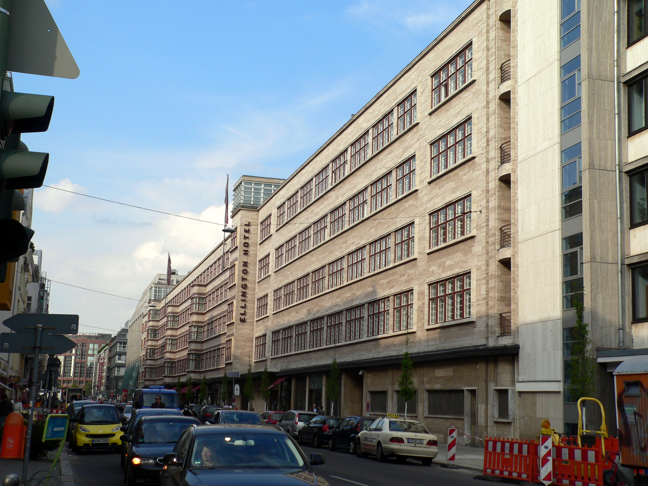 Berlin-Charlottenburg Nürnberger Straße